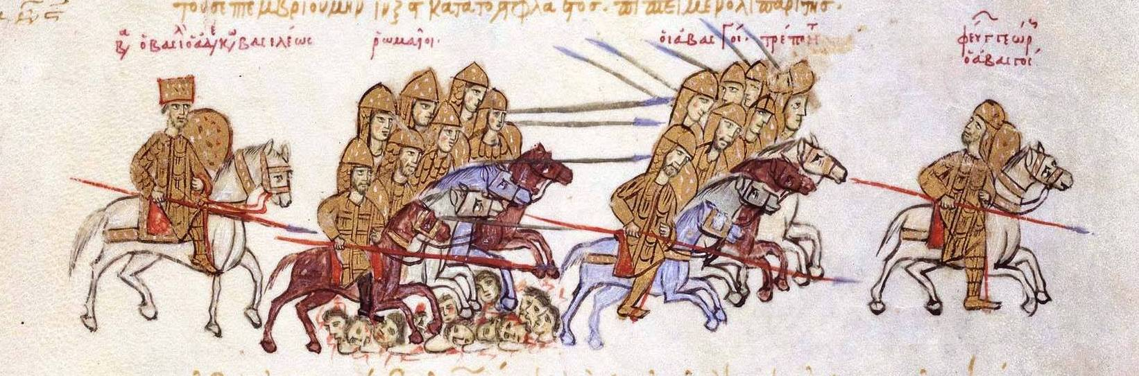 A miniature depicting the defeat of the Georgian king George I ("Georgios of Abasgia") by the Byzantine emperor Basil. Skylitzes Matritensis, fol. 195v. George is shown as fleeing on horseback on the right and Basil holding a shield and lance on the left.